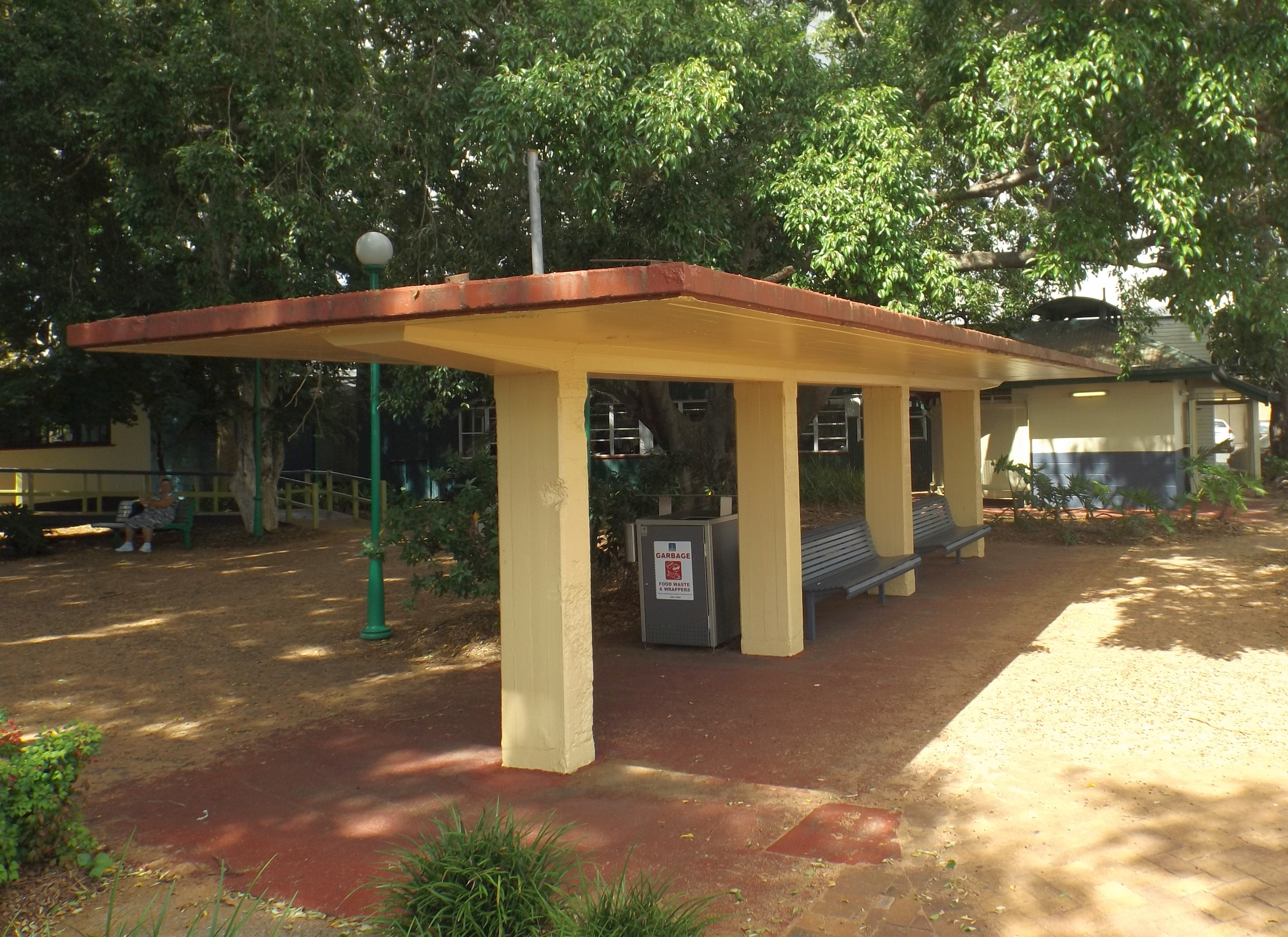 Photo of Stones Corner Air Raid Shelter at Greenslopes, Brisbane, Queensland, Australia.